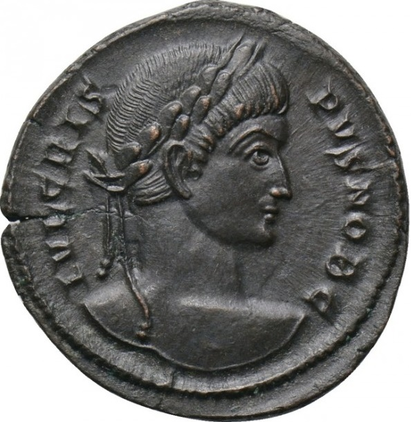 Crispus Follis